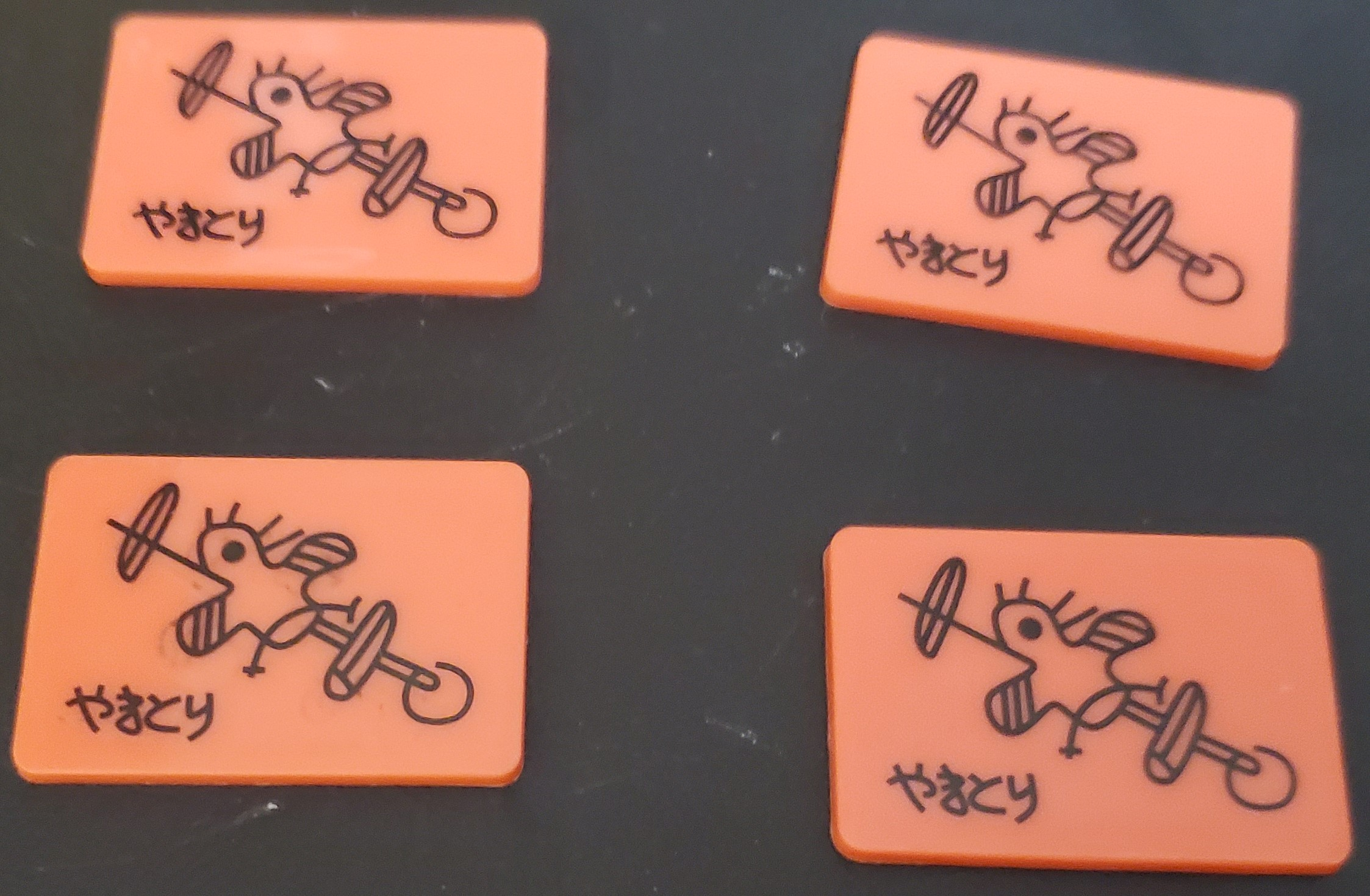 Japanese riichi mahjong sets contain four yakitori markers. Their use is entirely optional. Any player who wins at least one hand within a certain number of hands (typically eight), gets to flip their marker to the blank side. Players who failed to win pay a penalty to the others.